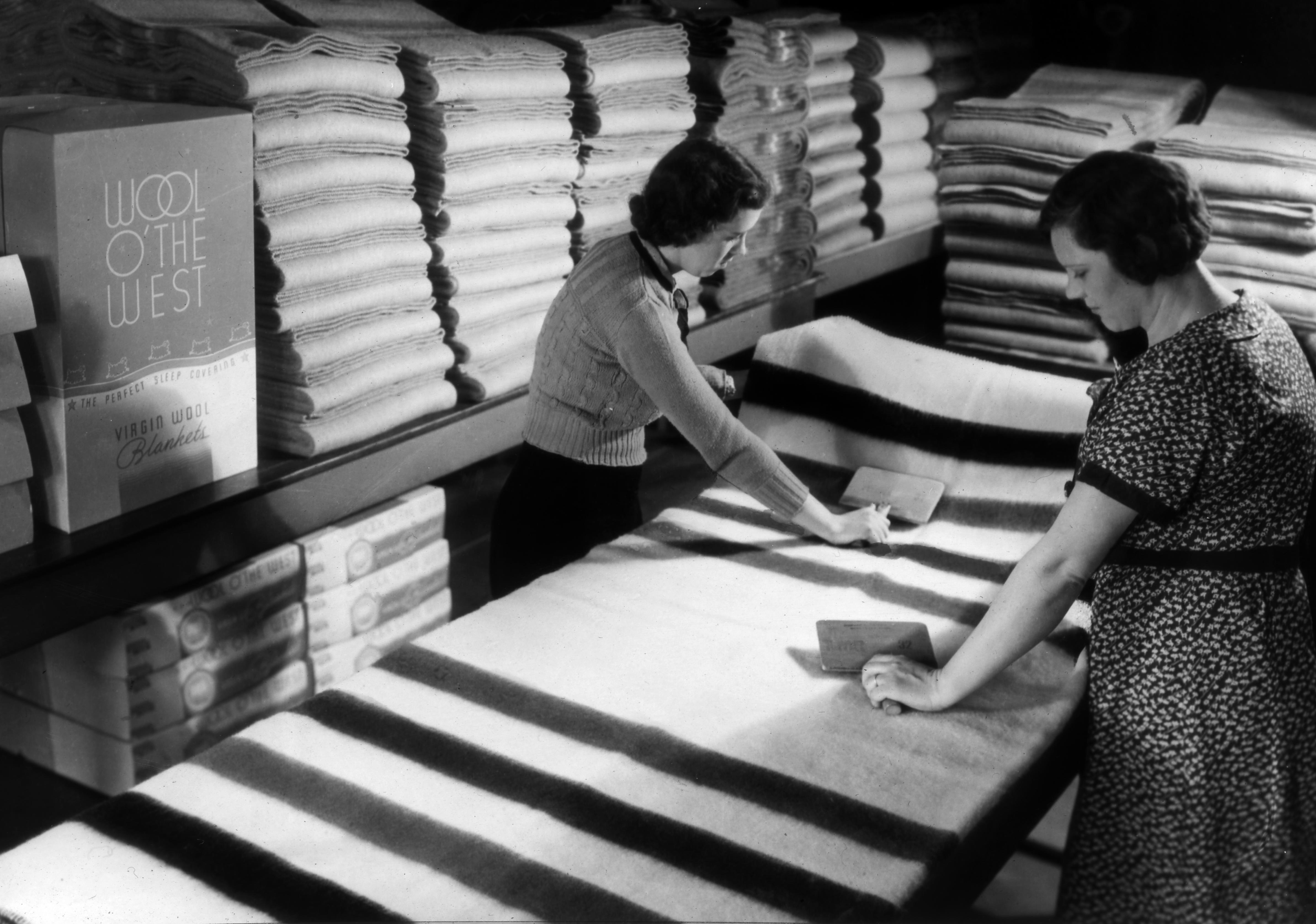 Image Title: Women working at the Portland Woolen Mills Description/Notes: The photo was part of the Oregon Industries slides. Original Format: Lantern slides Original Collection: Visual Instruction Department Lantern Slides Item Number: P217:set053:015 Restrictions: Permission to use must be obtained from the OSU Archives. Click here for further information or a high resolution copy of this image. Click here to view The Best of the Archives. Click here to view Oregon State University's other digital collections. We're happy for you to share this digital image within the spirit of The Commons; however, certain restrictions on high quality reproductions of the original physical version may apply. To read more about what “no known restrictions” means, please visit the OSU Archives website.